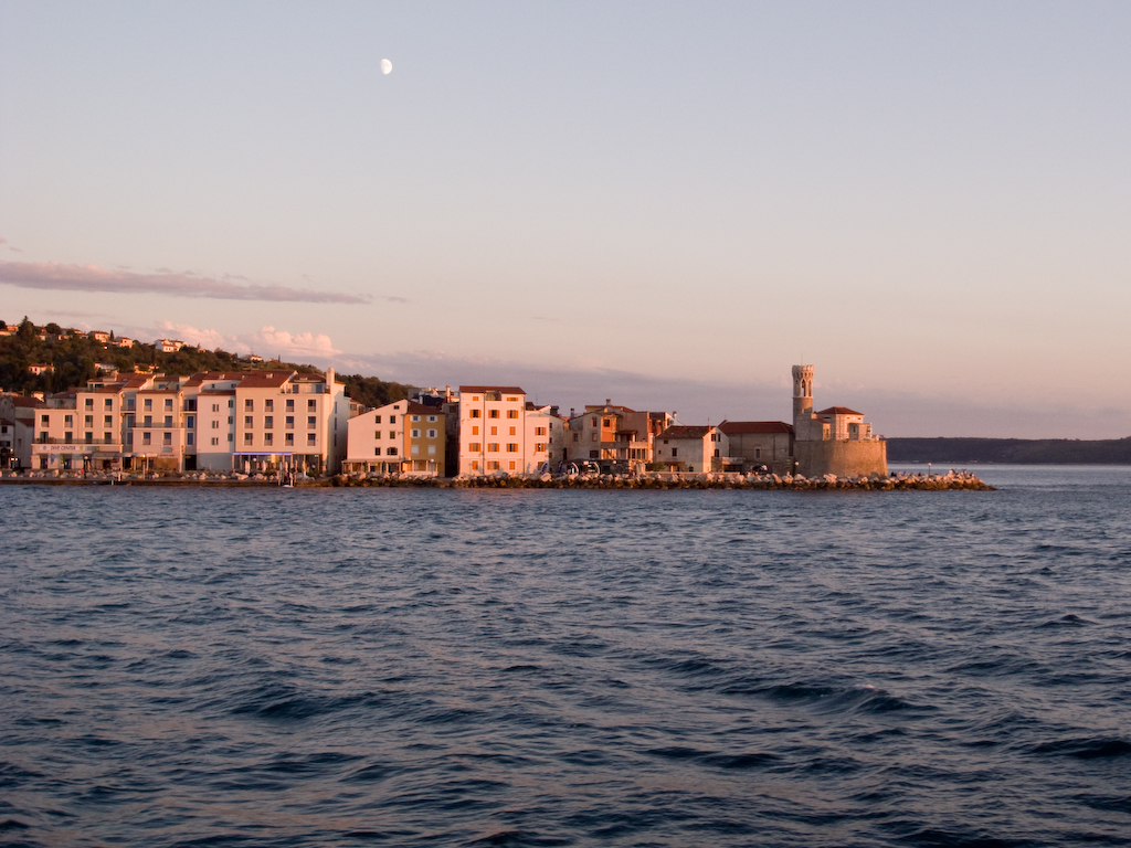 Sunset in Piran, Slovenia